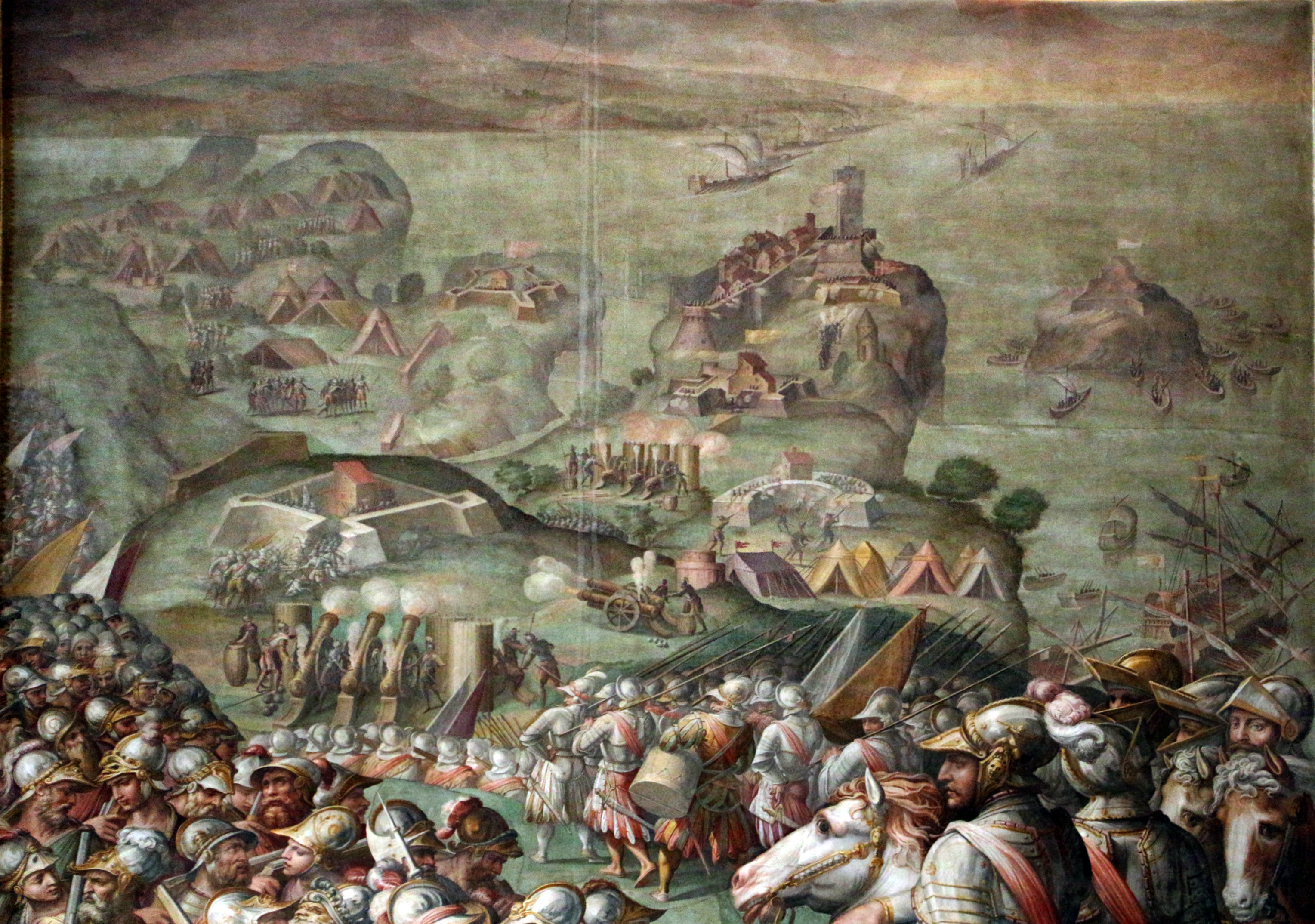 Salone dei Cinquecento - Vasari's paintings